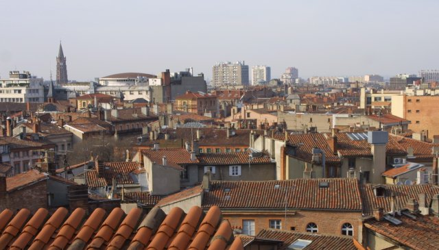 Description: Toulouse roofs, from Boulbonne street. Source: Camille Harang